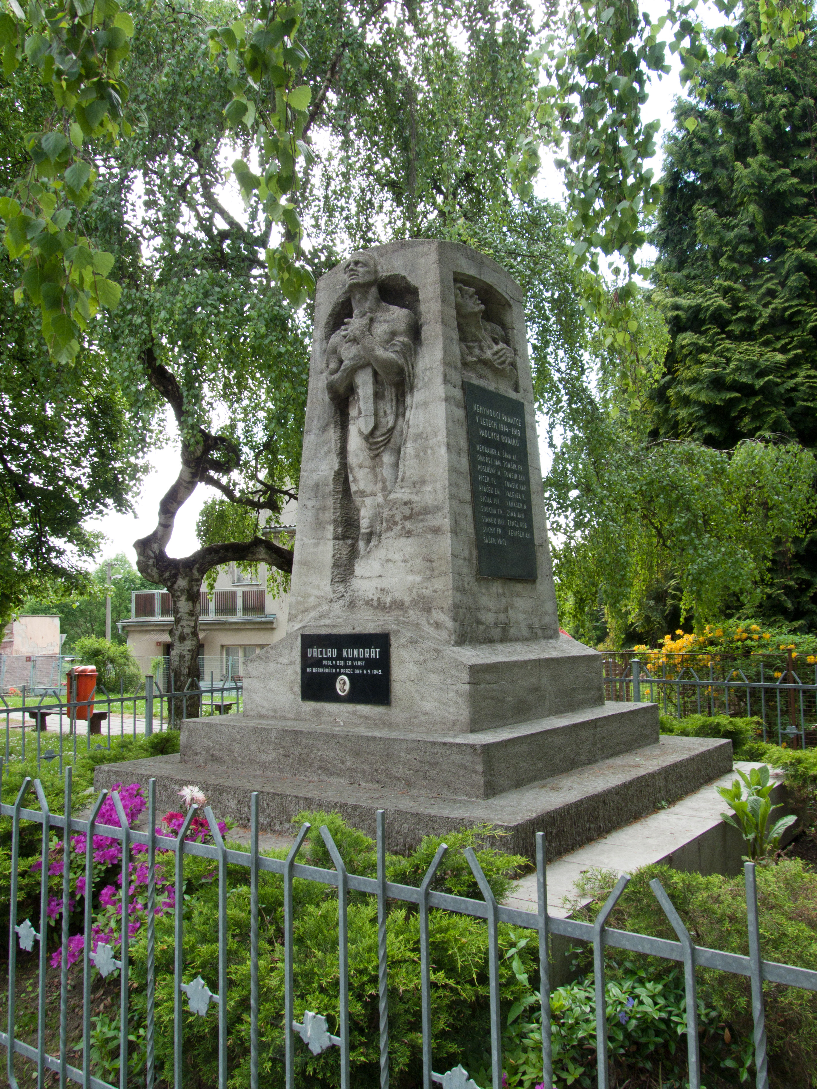 Memorial to those killed in the Great War in the village of Tučapy, Tábor District, Czech Republic.